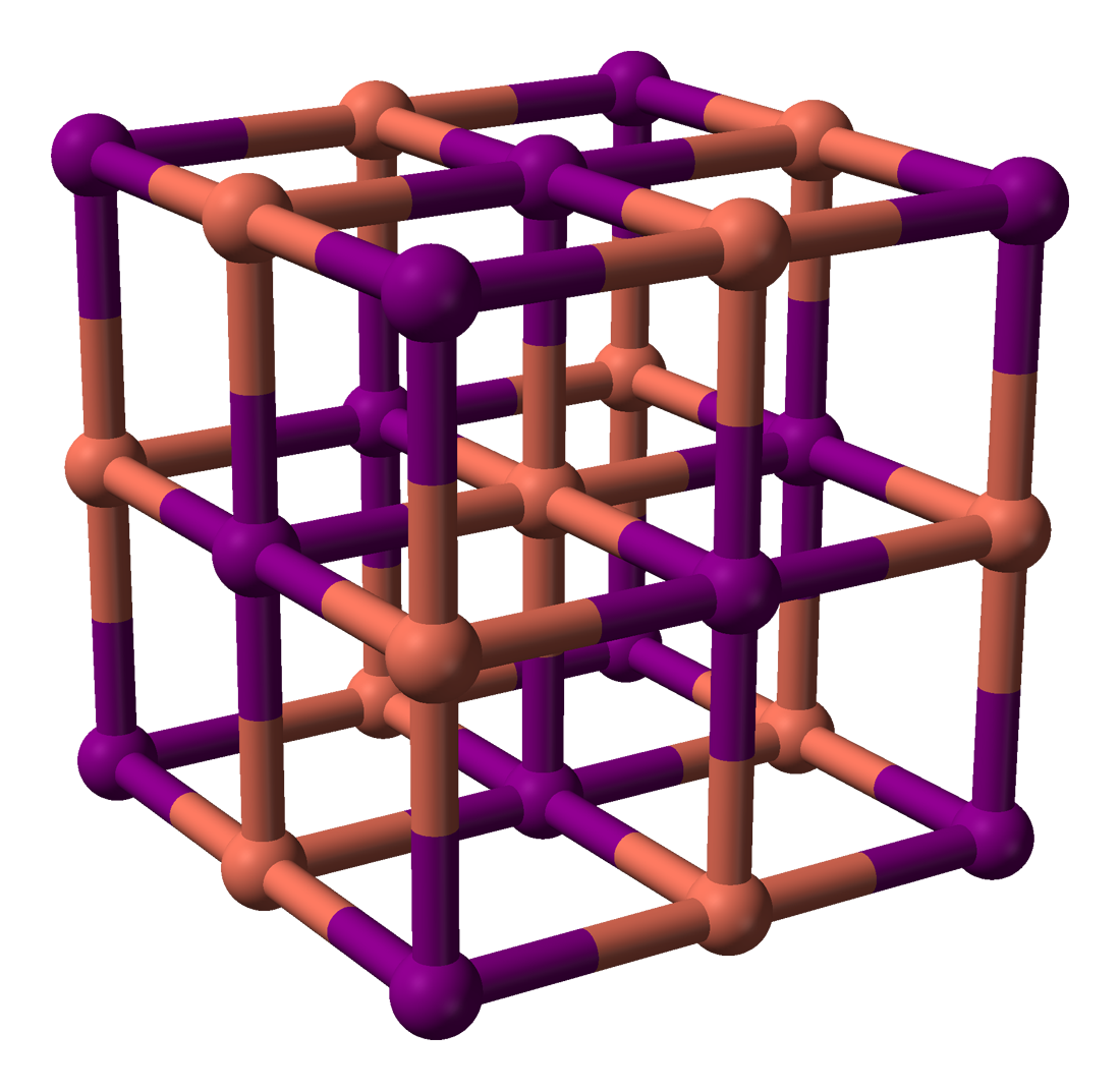 Ball-and-stick model of the unit cell of the alpha polymorph of copper(I) iodide, α-CuI.